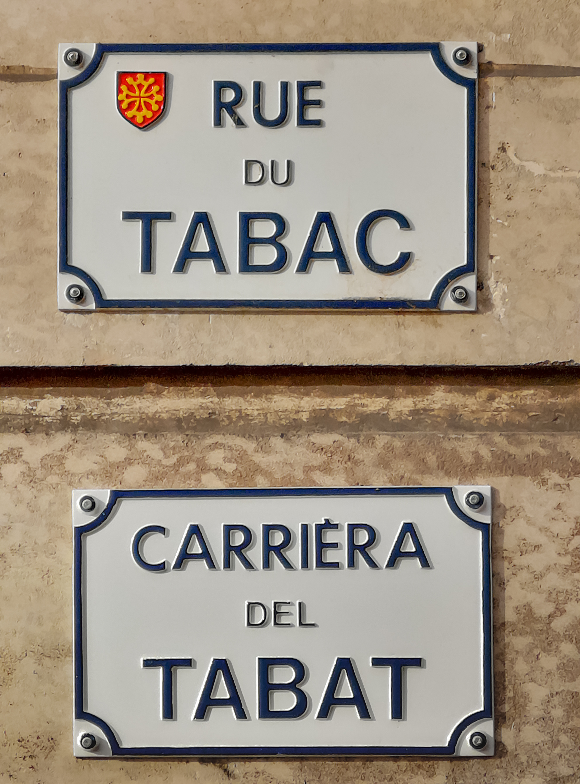 Rue du Tabac, in Toulouse - Street name sign. They have the particularity of being: in French and Occitan.